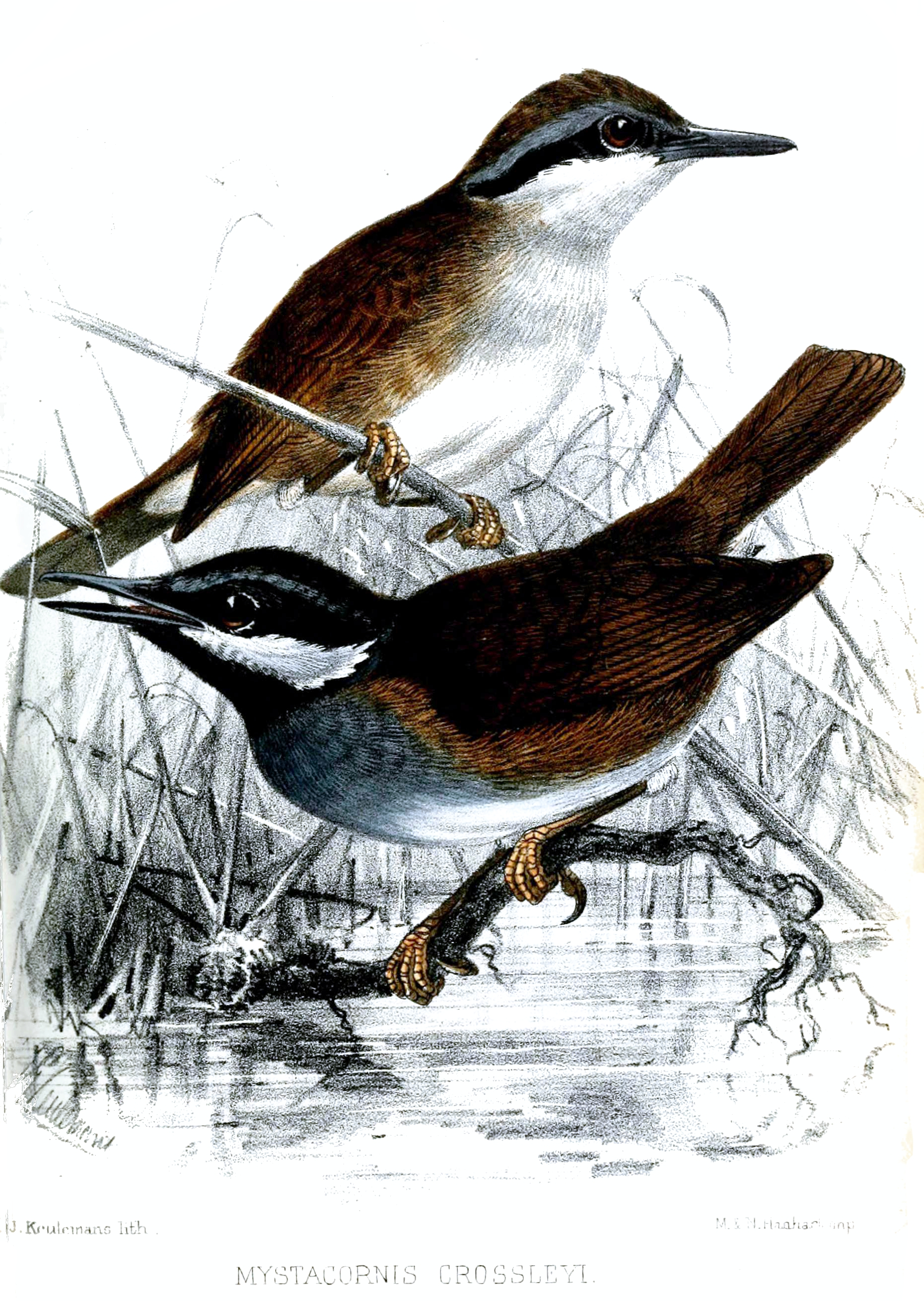 Mystacornis crossleyi